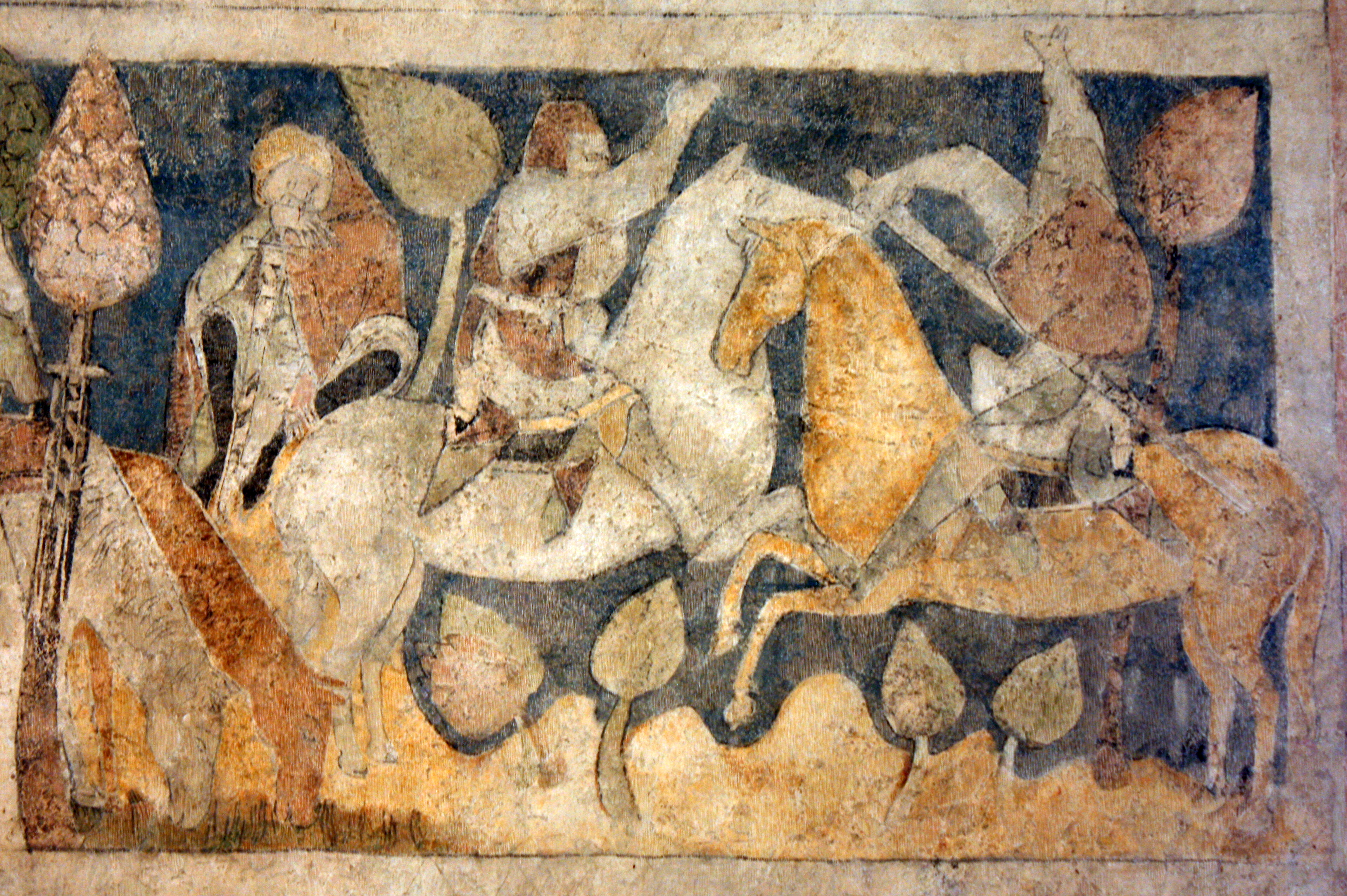 This photo of Lower Silesian Voivodeship was taken during Wikiexpedition 2013 set up by Wikimedia Polska Association.You can see all photographs in category Wikiekspedycja 2013.